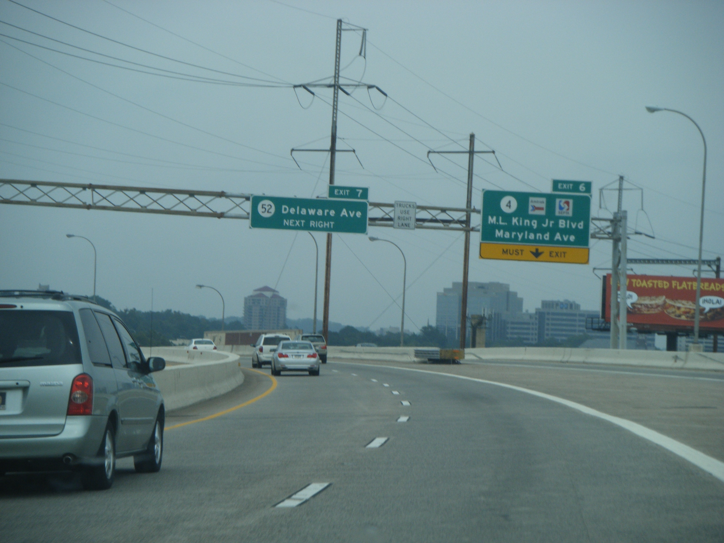 Northbound Interstate 95/U.S. Route 202 at the exit for Delaware Route 4 (exit 6) in Wilmington, Delaware.